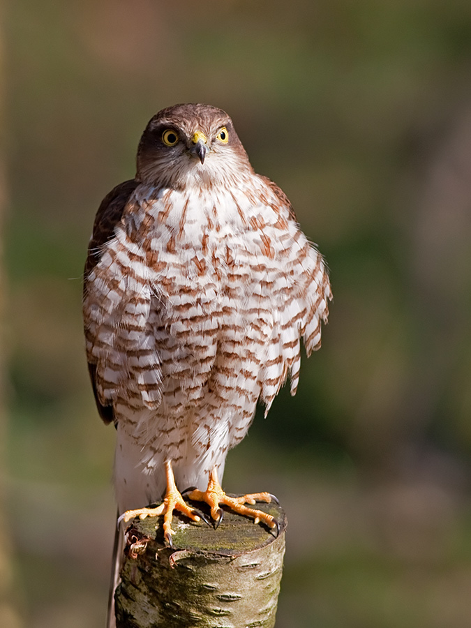 A juvenile Sparrowhawk in Scotland.